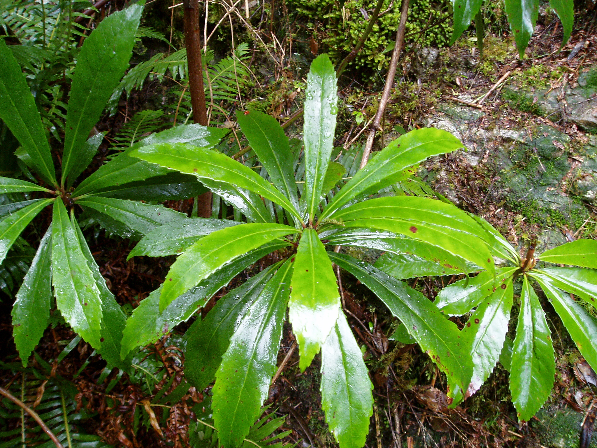 Anopterus glandulosus, Snug River, southern Tasmania